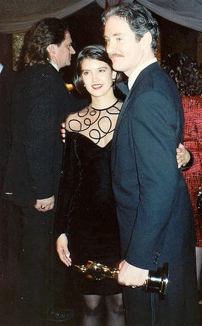 Oscar-winner Kevin Kline and his wife Phoebe Cates at the Governor's Ball party after the 1989 Academy Awards, March 29, 1989 - Permission granted to copy, publish, broadcast or post but please credit "photo by Alan Light" if you can